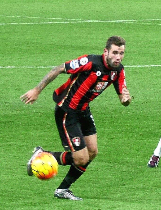 Footballer Steve Cook playing for AFC Bournemouth against Chelsea in 2015/16